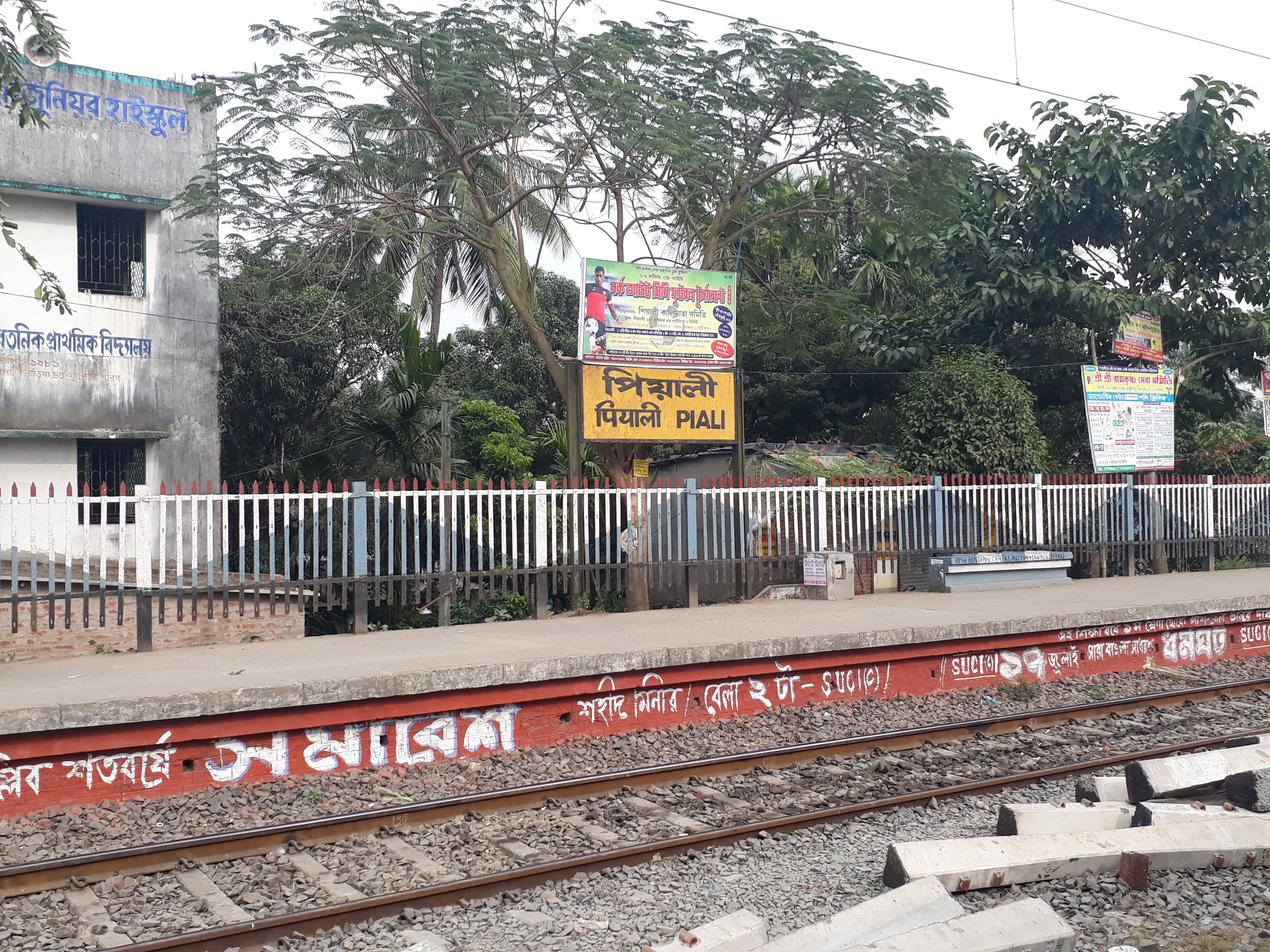 Railway stations of Baruipur to Canning route, Sealdah South Line